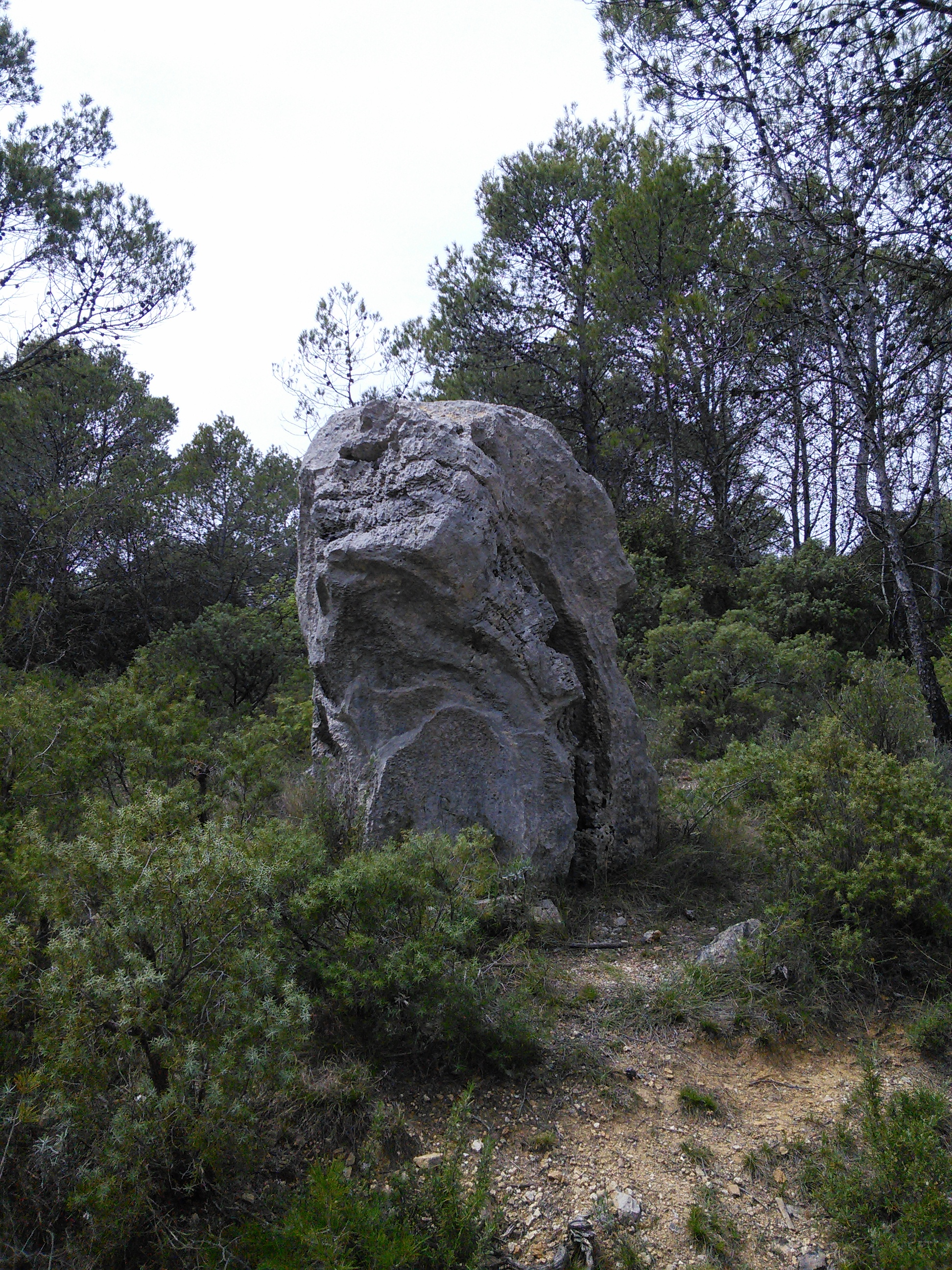 Vertical monolith located in the municipality of Claret (Hérault - France).